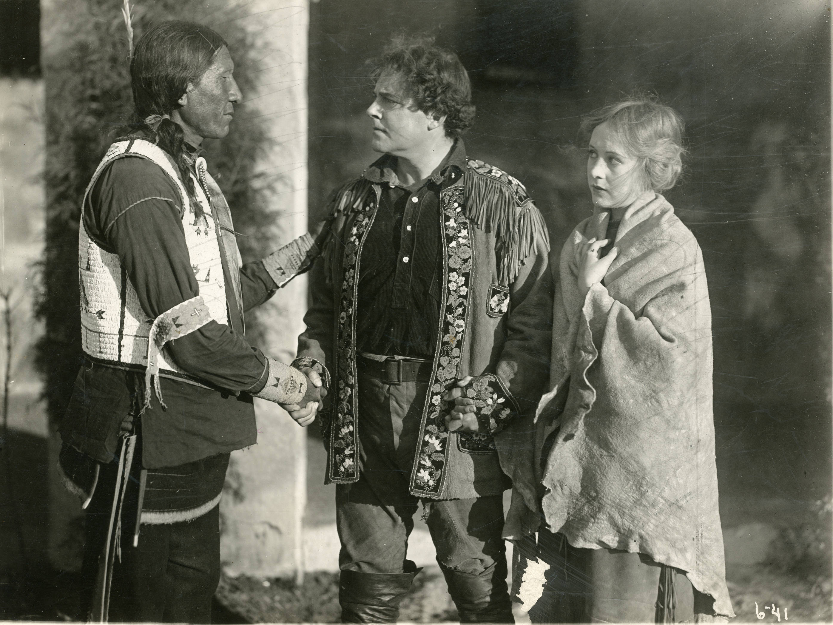 A scene from the American drama film The Conqueror (1917). Clemmer Movie Cut Sunday Feb. 3, 1918. Includes William Farnum. Subjects: motion pictures, actors